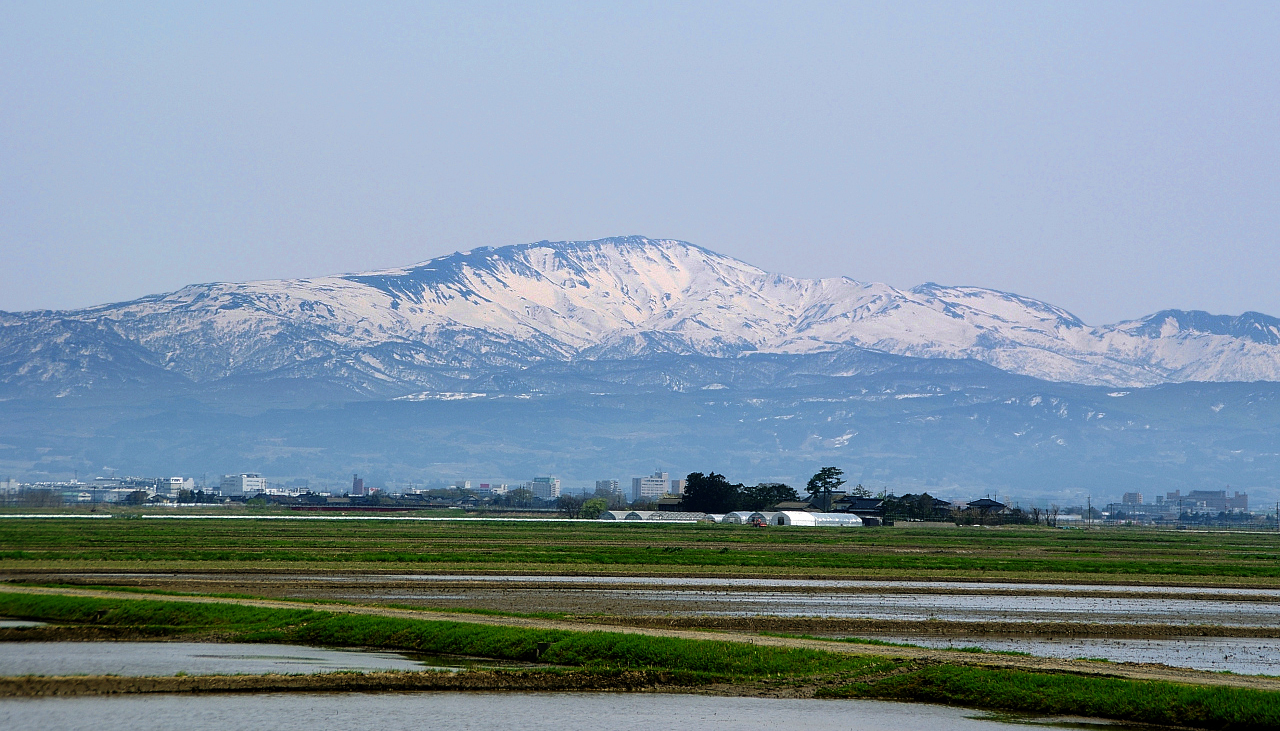 The Nothwest face of Gassan with Tsuruoka City in Yamagata Prefecture, Japan.